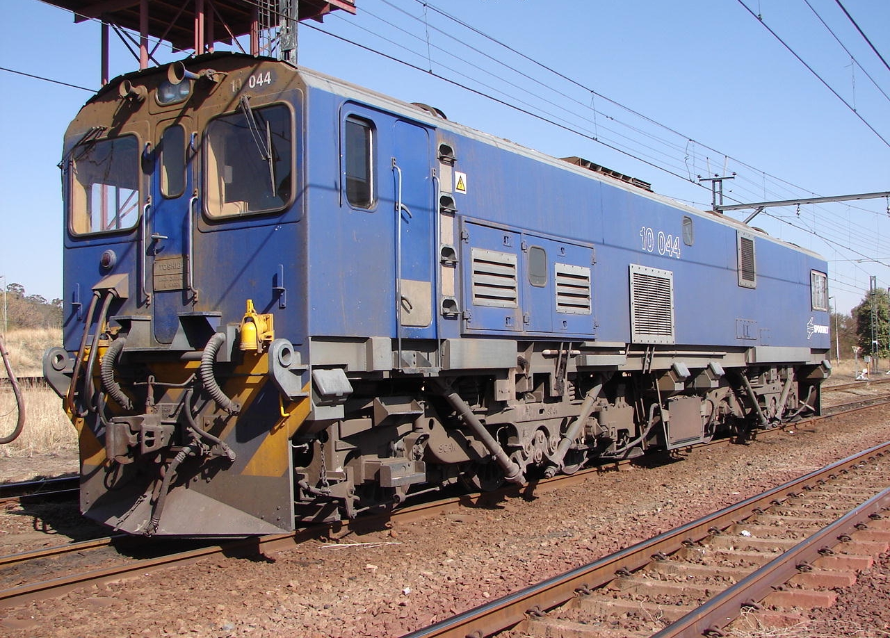 SAR Class 10E 10-044Location: Klerksdorp, North West Province